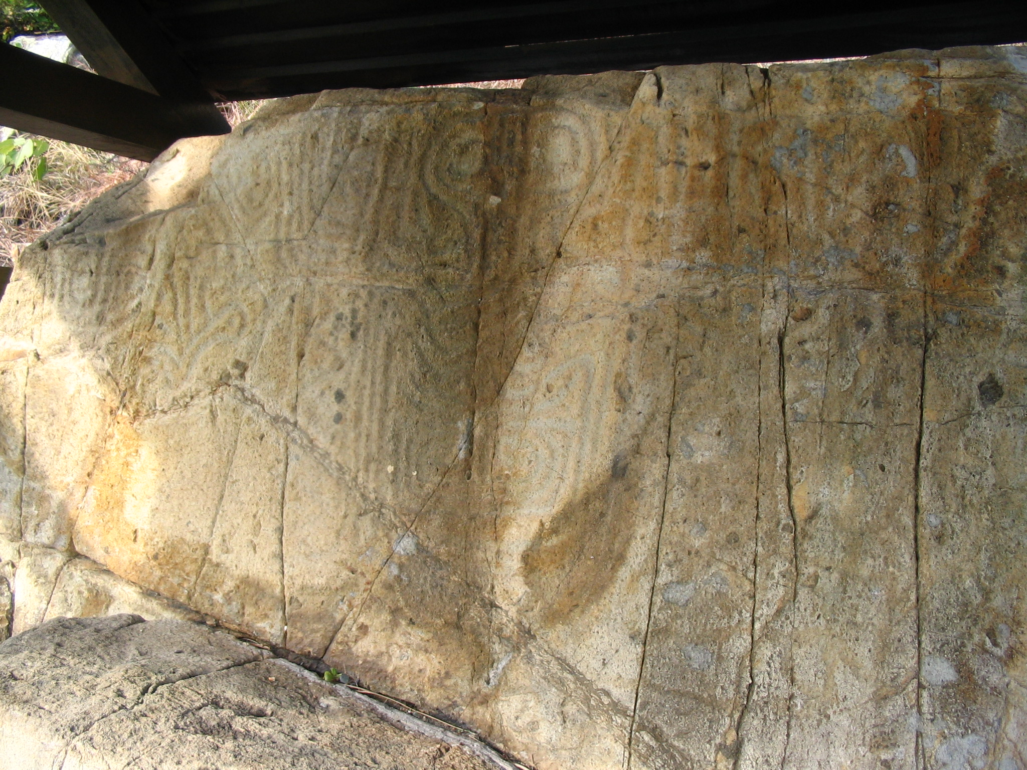 Photo of Big Wave Bay Rock Carving